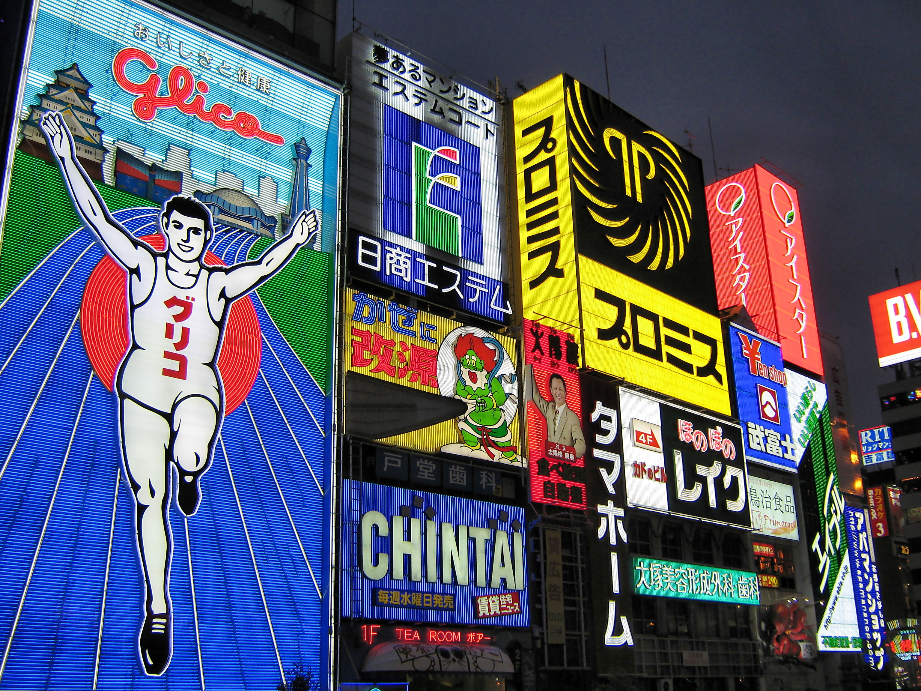 In Apr/May 2009, I took 15 days to walk all the way from Tokyo to Kyoto, roughly following the 546km long, ancient highway, the Nakasendo, alone. This picture was taken during the free week I had in Japan after the walk. Read about my preparations and my time in Japan at .